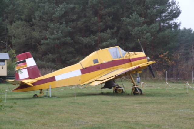 Let Z-37 Cmelak agricultural plane at Hans-Grade-Museum in Borkheide. Version with higher resolution is available